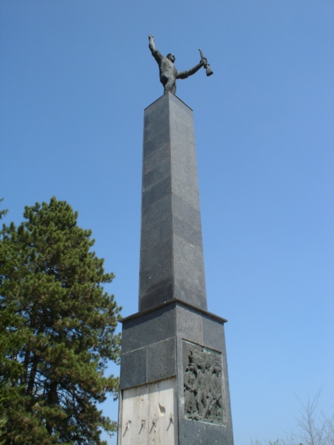 Monument Erected in Honour to the Fallen in WW II Bolman Battle